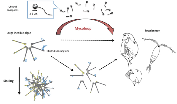 Diagram of a “mycoloop.” Parasitic chytrids can transfer material from large inedible phytoplankton to zooplankton. Chytrids zoospores are excellent food for zooplankton in terms of size (2–5 μm in diameter), shape, nutritional quality (rich in PUFAs and cholesterols). Large colonies of host phytoplankton may also be fragmented by chytrid infections and become edible to zooplankton. On the other hand, infected host colonies may remain inedible to Daphnia, or even become less edible due to the aggregate formation of cells. Those aggregations may sink faster, and affect material cycling in lakes.